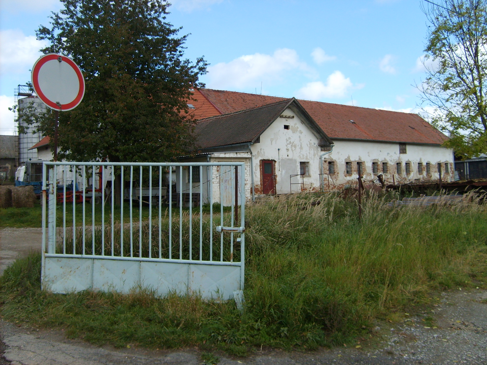 Farmers cooperation in Studený.